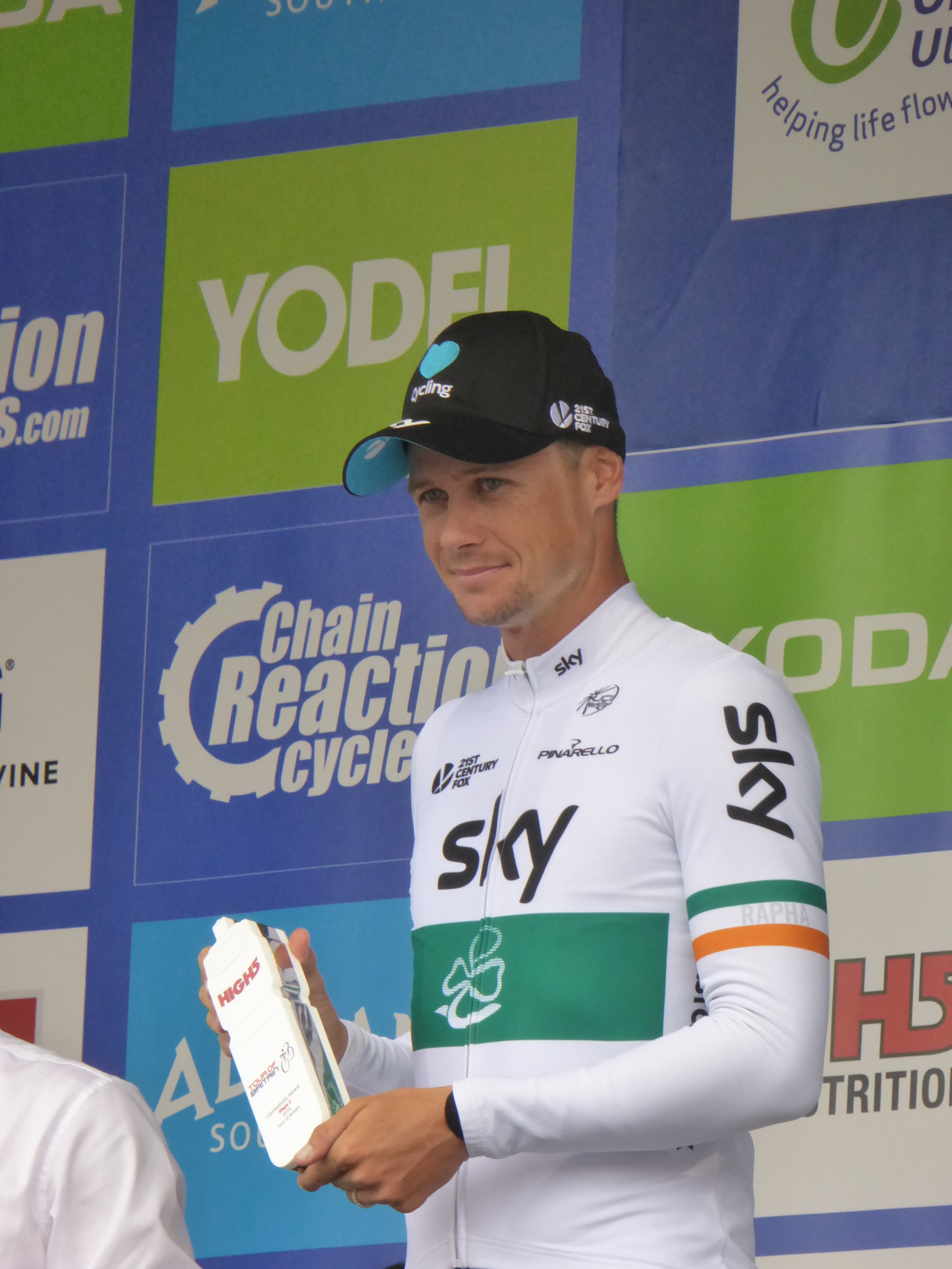 Most combative rider Nicolas Roche (Team Sky), on the podium after Stage 2 of the 2016 Tour of Britain in Kendal on 5 September 2016.